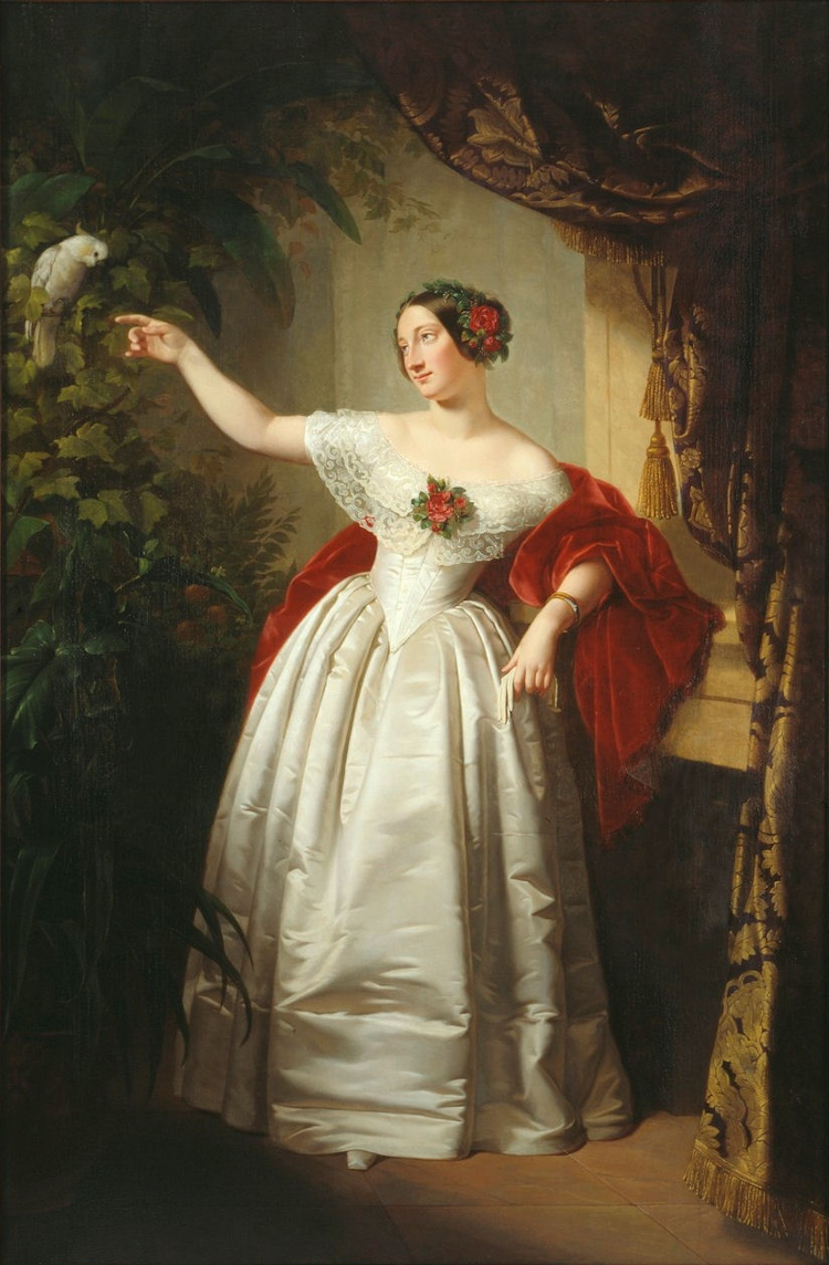 Princess Alexandrine of Baden (later Duchess of Saxe-Coburg and Gotha), 1840